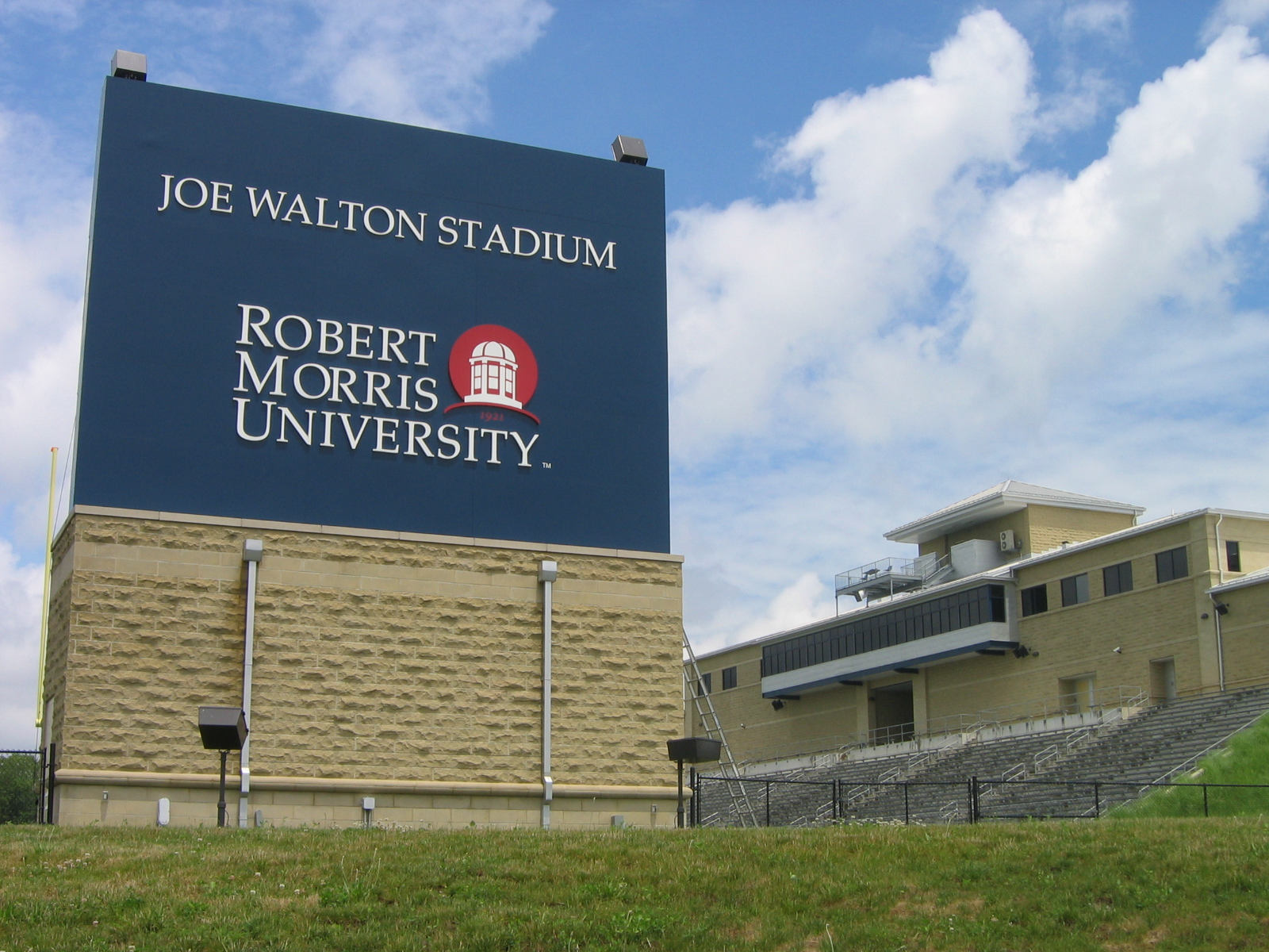 Football & Basketball Facilities Robert Morris Stadium